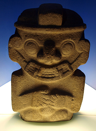 this is one of the wonderful sculptures you can see in the gold museum in Bogota, the mission of this museum began in 1939 helping to protect the archaeological patrimony of Colombia.